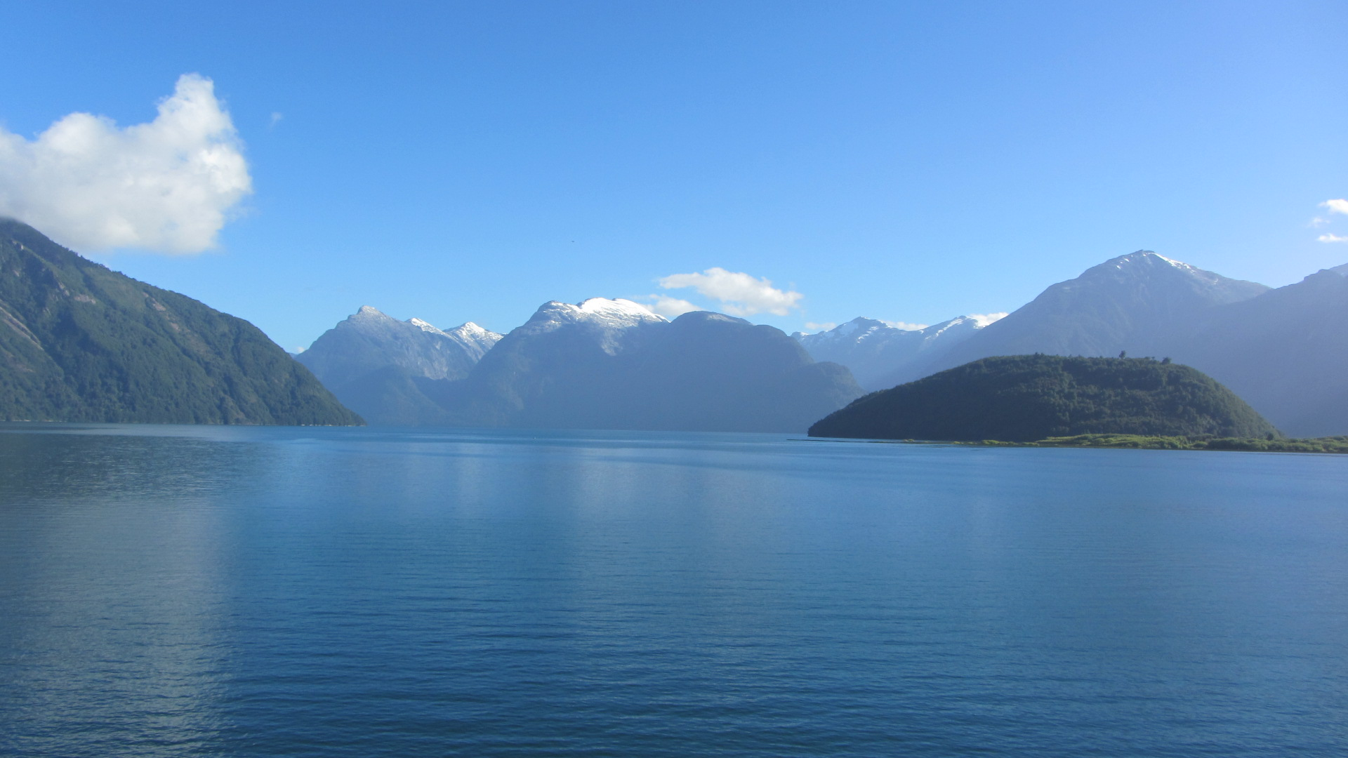 Lago Chacabuco